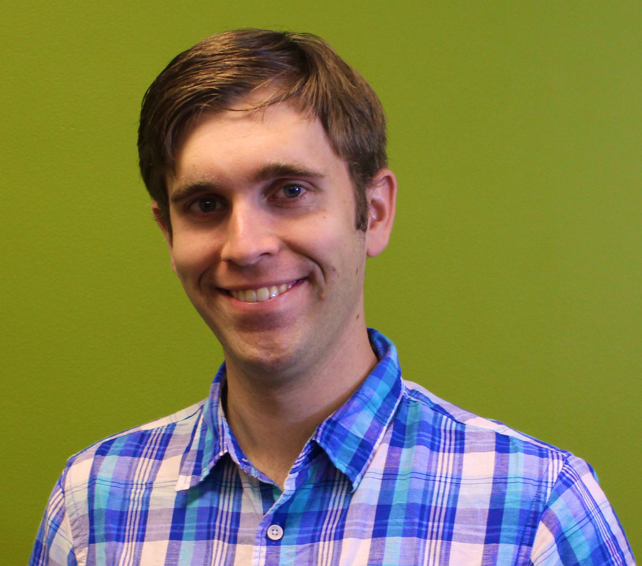 Carnegie Mellon MHCI Green Wall photo